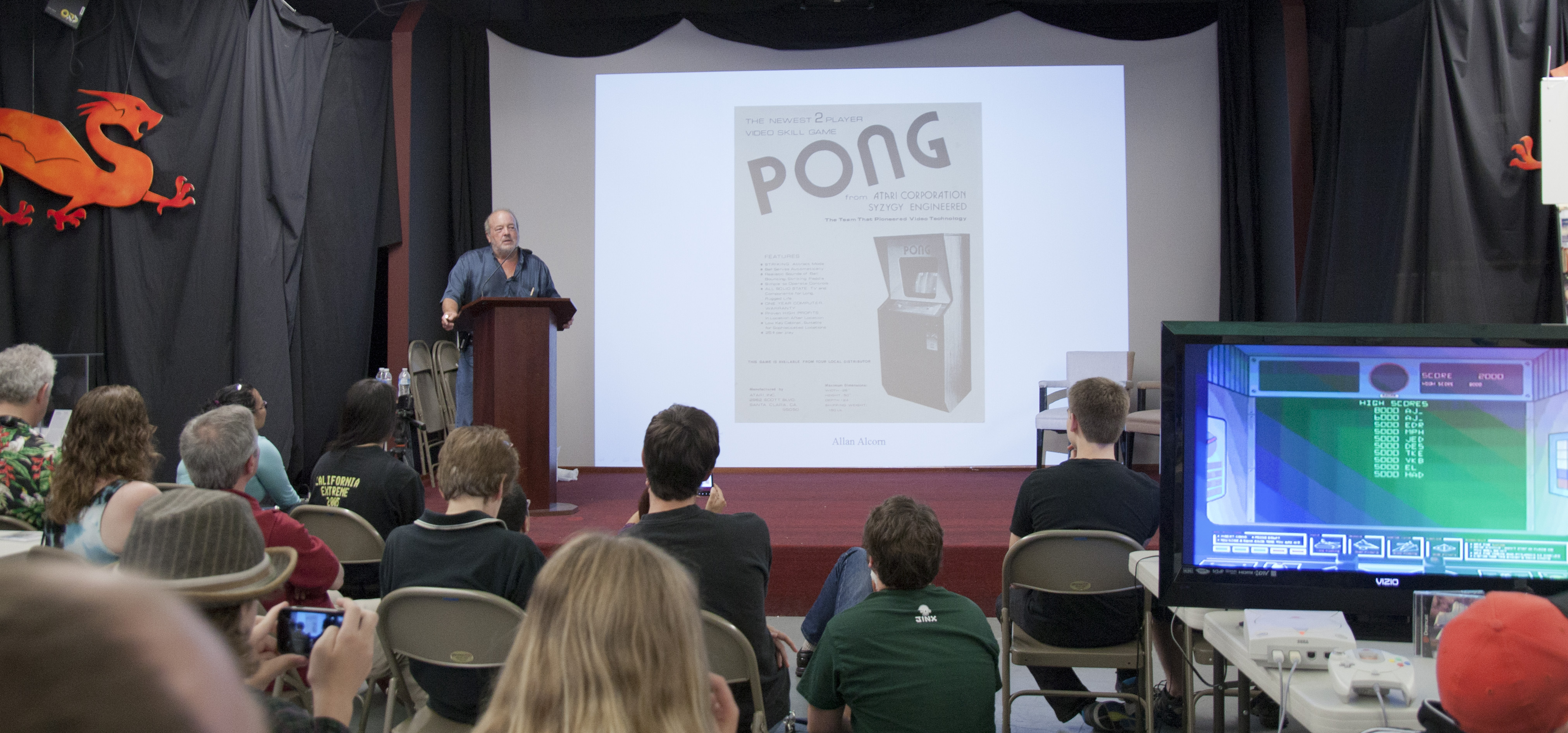 Allan Alcorn presenting the first Pong ad